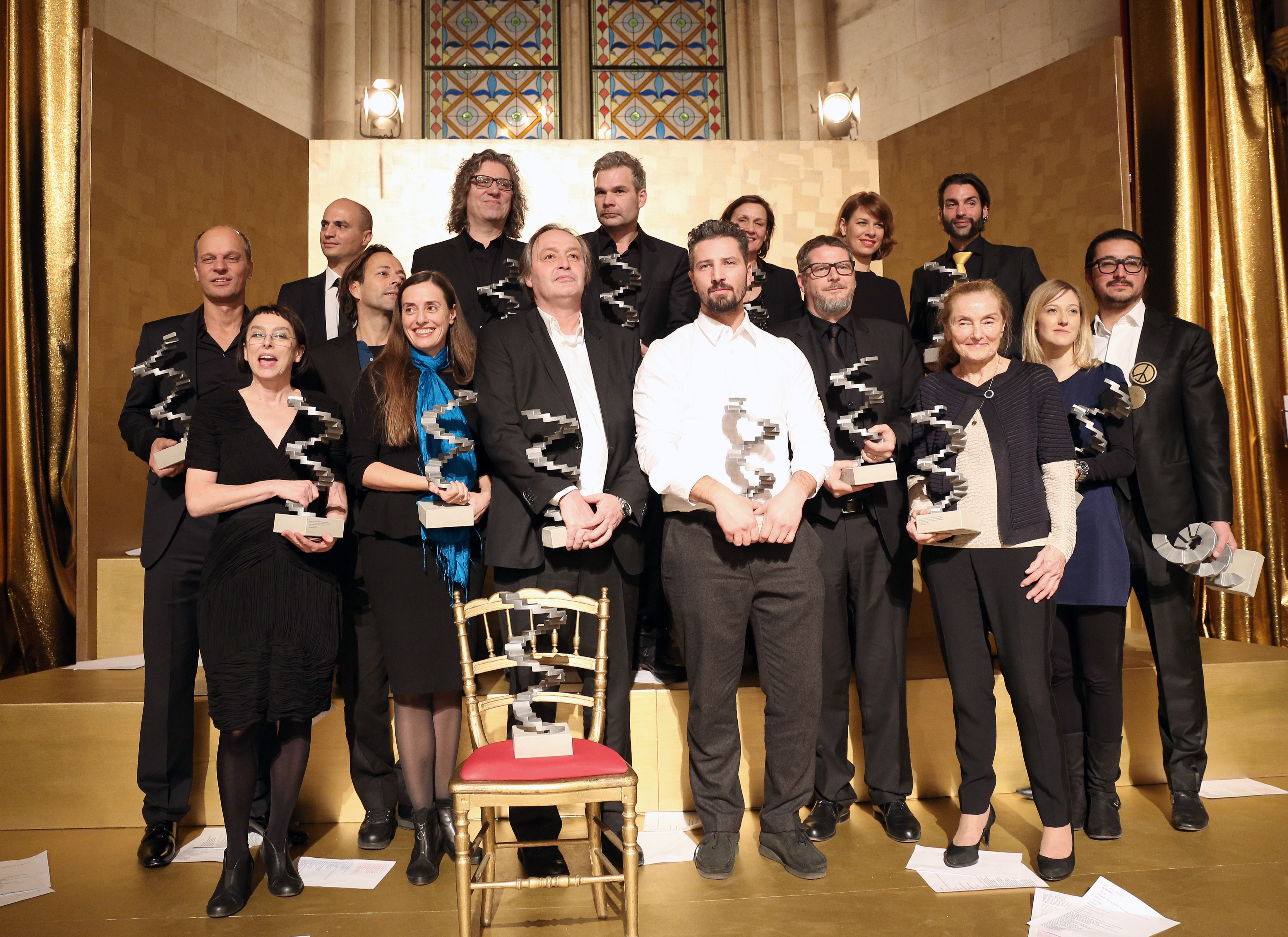 Awardees of the Austrian Film Awards 2015 at Rathaus, Vienna,Austria.